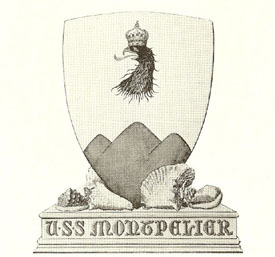 Shield of the U.S. Navy light cruiser USS Montpelier (CL-57). It was designed by Dr. Harold Bowditch, descendant of famous navigator Nathaniel Bowditch. It was presented by Samuel E. Morrison, Commander, USNR, Official U.S. Navy Historian.